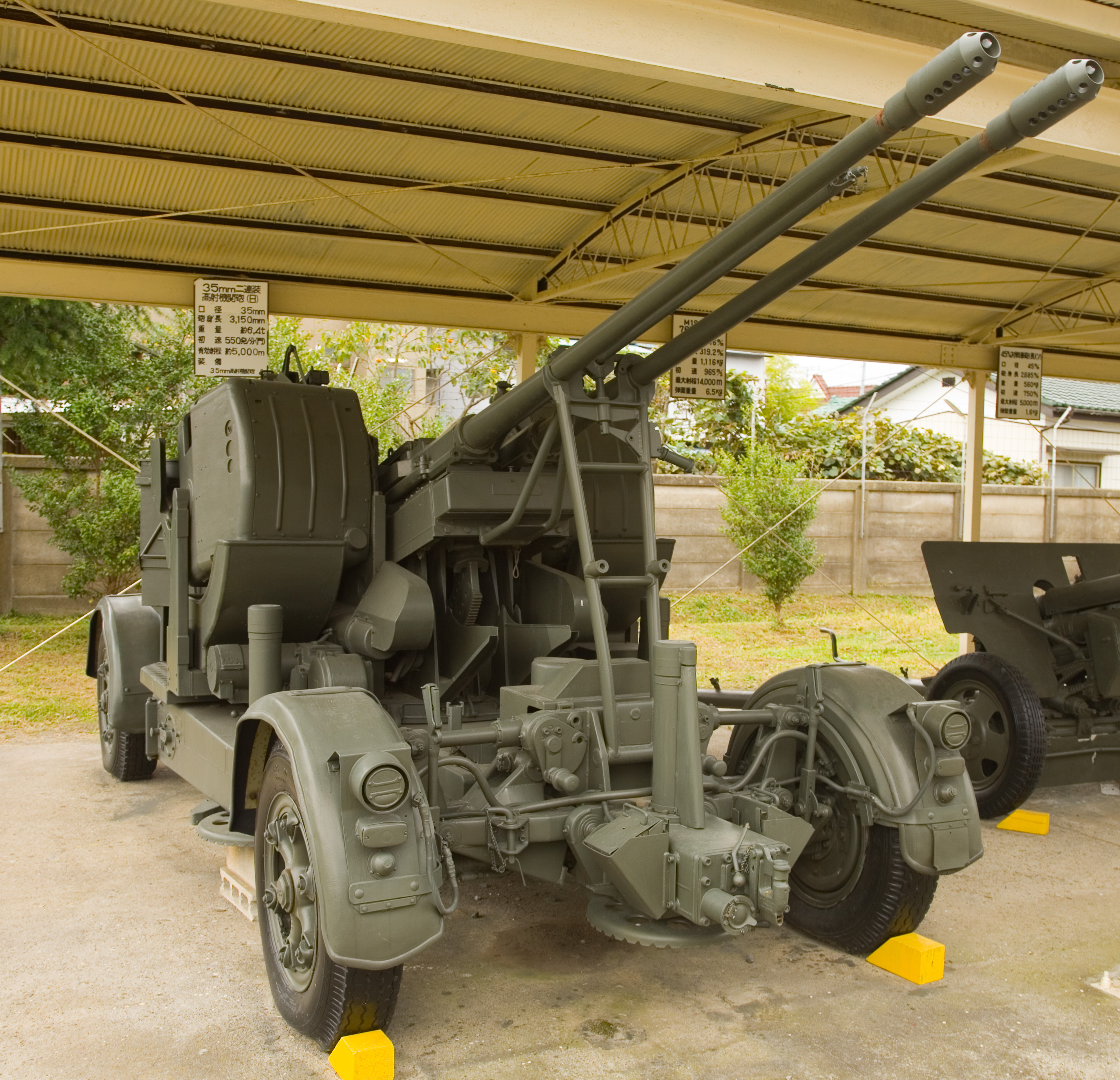 35 mm L90 a Japanese produced version of the Oerlikon/Contraves GDF-002 35 mm cannon. At Tsuchira tank museum.